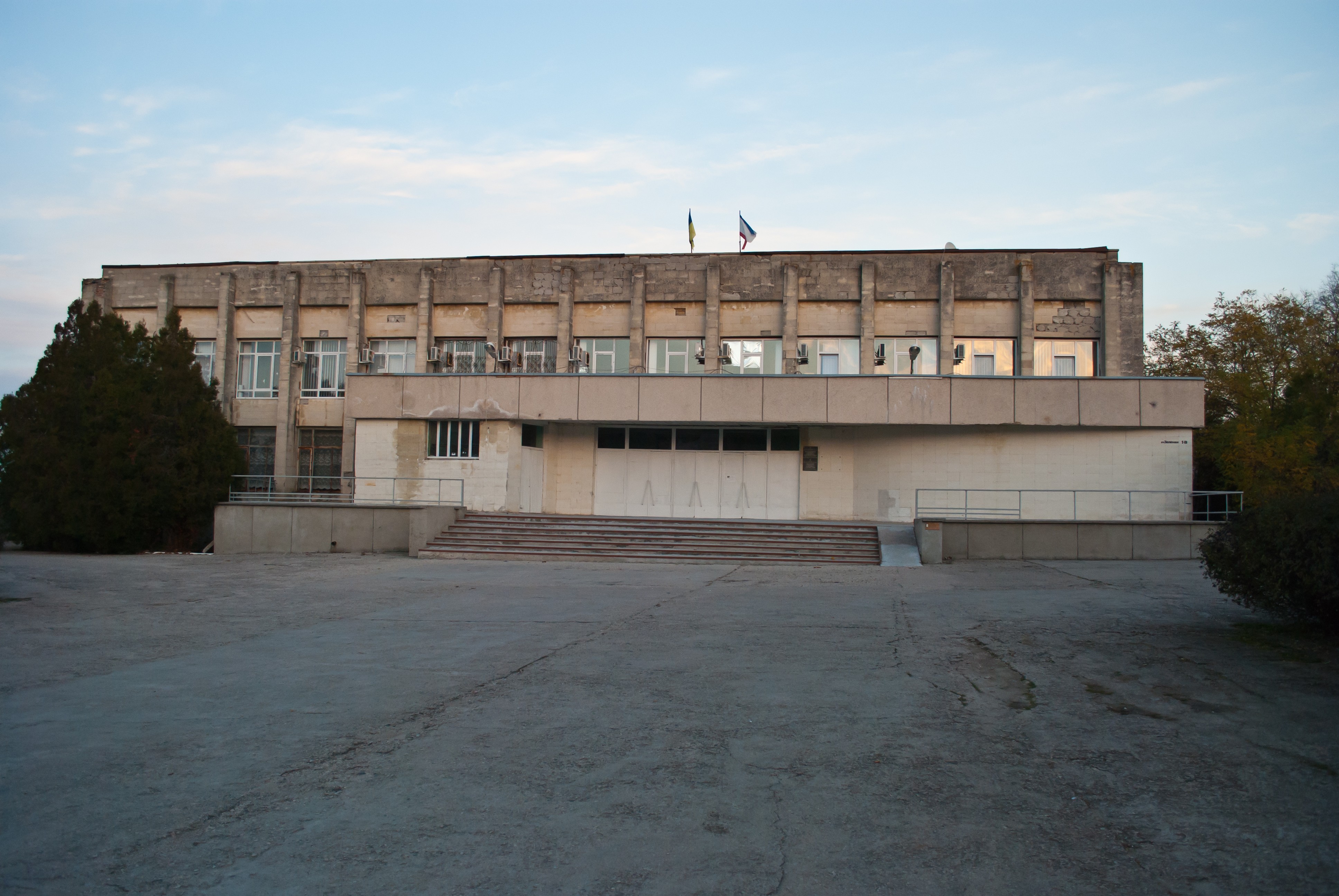 Office building of the Trudovoye council (village Trudovoye, Simferopol district, Crimea).